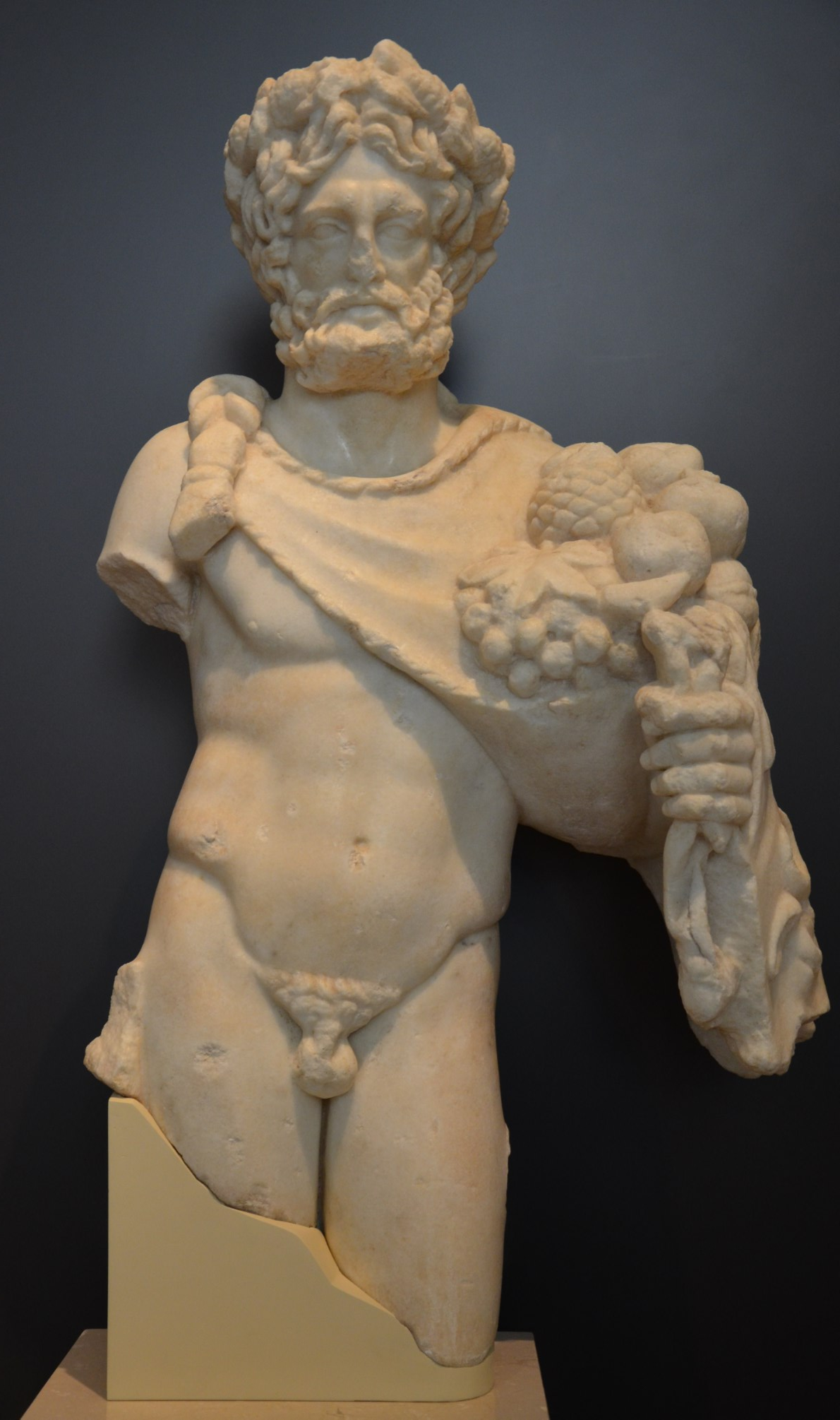 The Roman god of forests, groves and wild fields. As fertility god he is the protector of herds and cattle and is associated with Faunus. He shows many similarities with the Greek Pan (Silvanus also liked to scare lonely travelers). The first fruits of the fields were offered to him, as well as meat and wine--a ritual women were not allowed to witness. His attributes are a pruning knife and a bough from a pine tree.